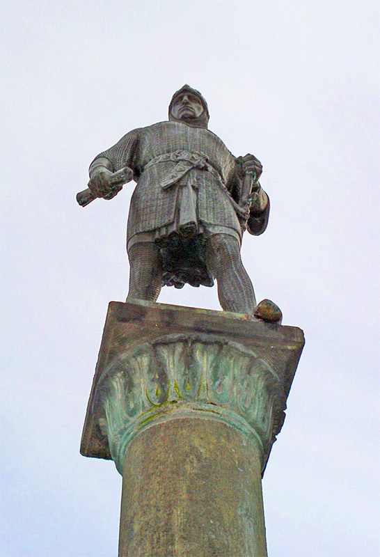 Statue of Bernard II, Lord of Lippe in Lippstadt, District of Soest, North Rhine-Westphalia, Germany.